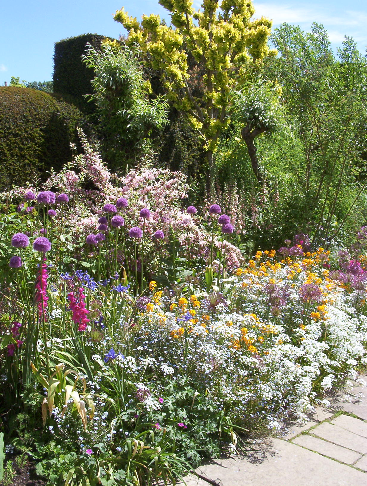 Chelsea Flower Show, 2002